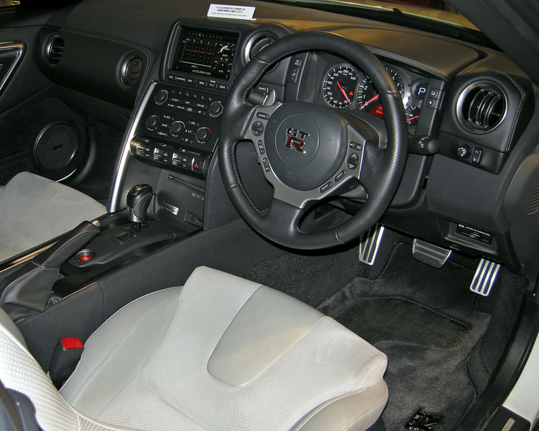 Nissan GT-R Premium Edition Interior